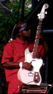 TEISCO NB-4 (also known as Silvertone Model 57) clipped from Alright, alright - The Aggrolites @ Flickr See also Free Time @ YouTube